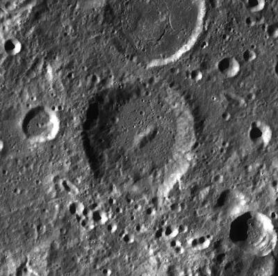 Ramsay lunar crater - LROC image